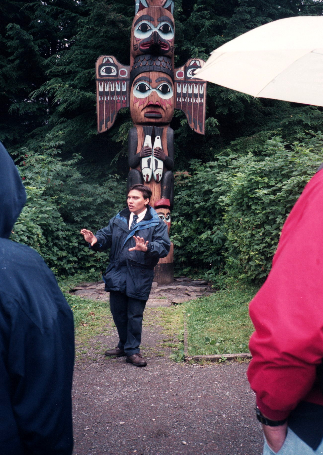 A guide explains totem pole history and symbology to tourists at Totem Bight State Historical Park near Ketchikan, Alaska, USA. 1998